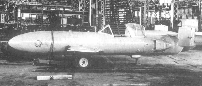 A MXY-7 Ohka Model 22 at Yokosuka minus its wings. Note the air intakes indicating jet, not rocket power.